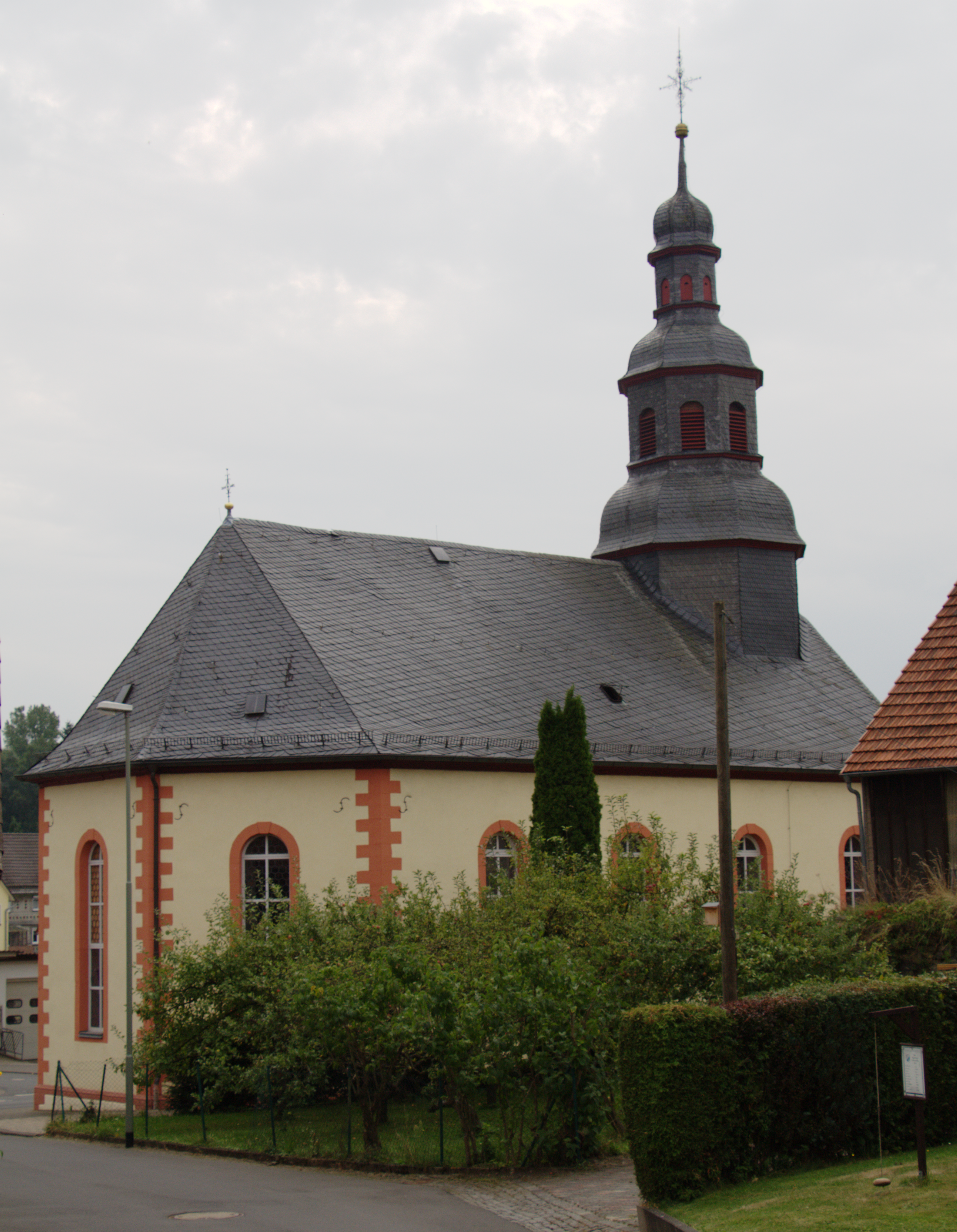 Protestant church in Schotten Burkhards Niddergrund, Hesse, Germany